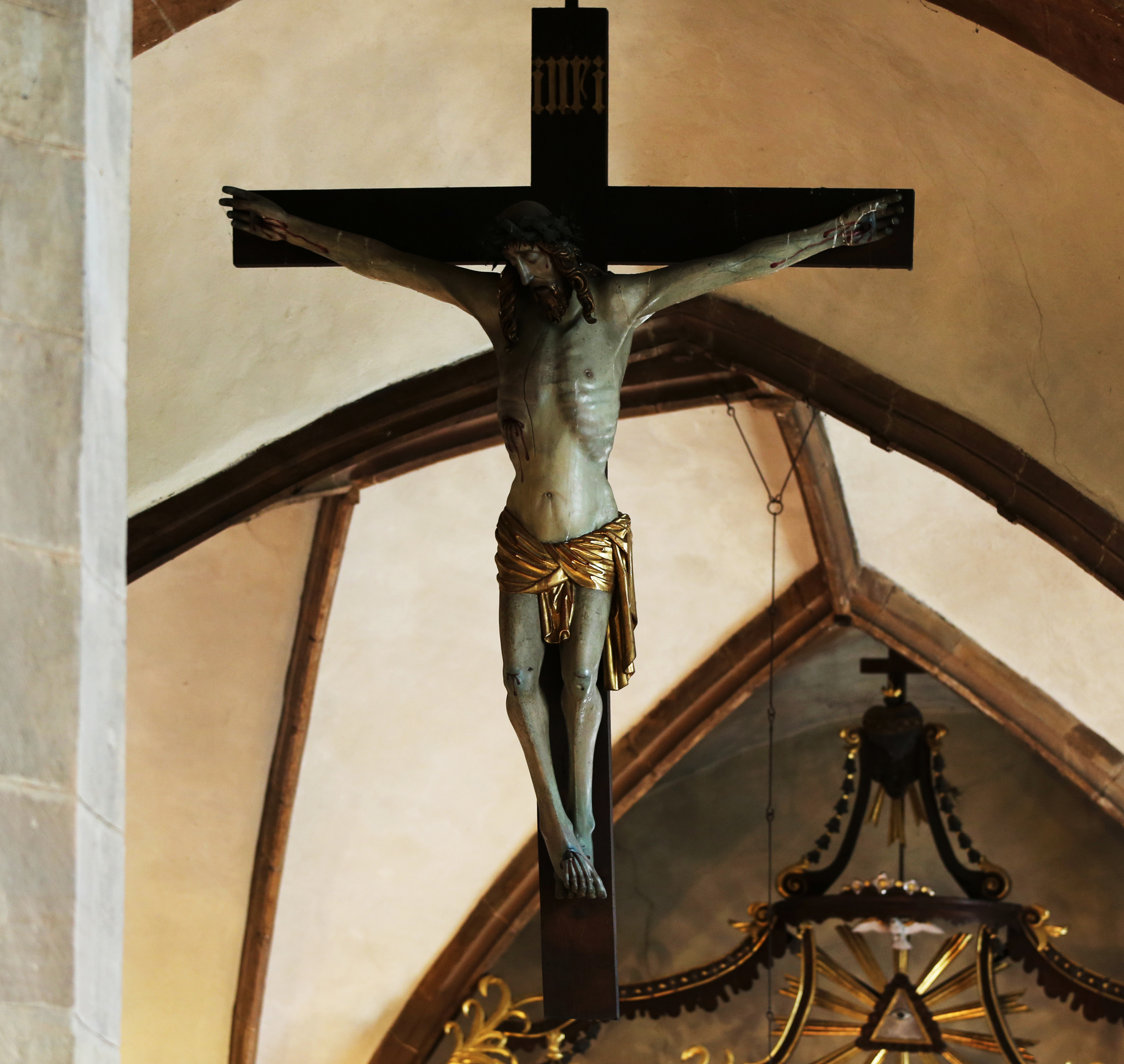 Gothic crucifix (16th century), inside the former Catholic Parish Church St. Viktor, Hochkirchen (Nörvenich), Germany